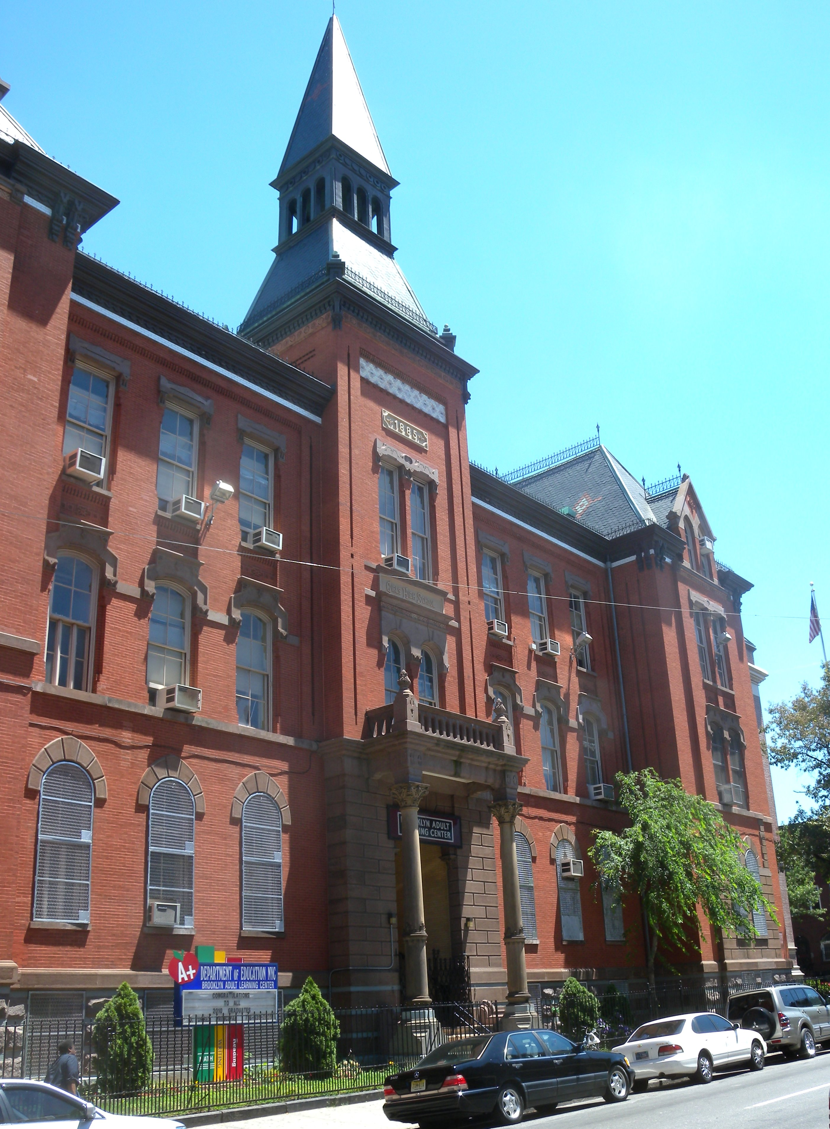 Looking southeast across Nostrand Avenue at Girls High School on a sunny midday.